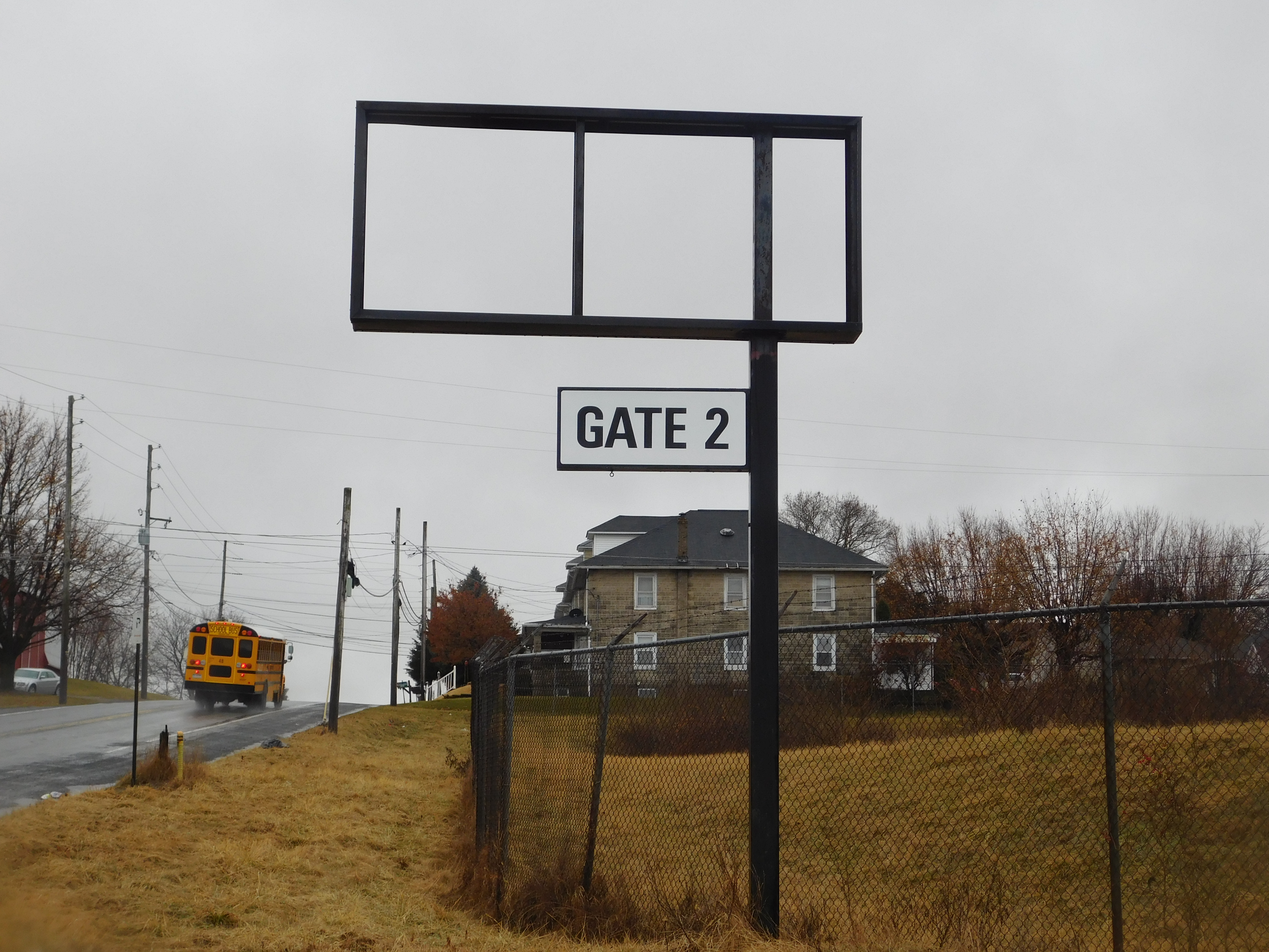 Abandoned signage for Nazareth Speedway.